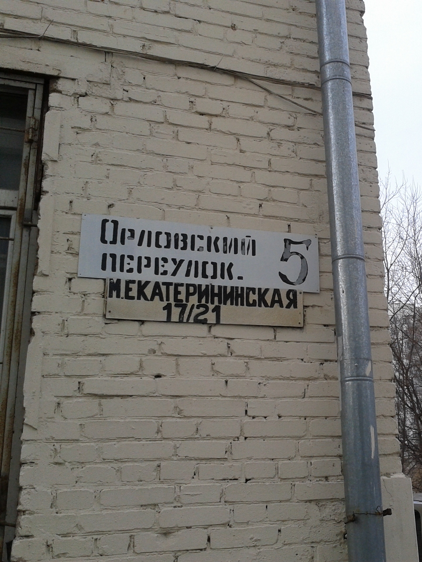 address disambiguation: Orlovsky or Mal. Ekaterininskaya